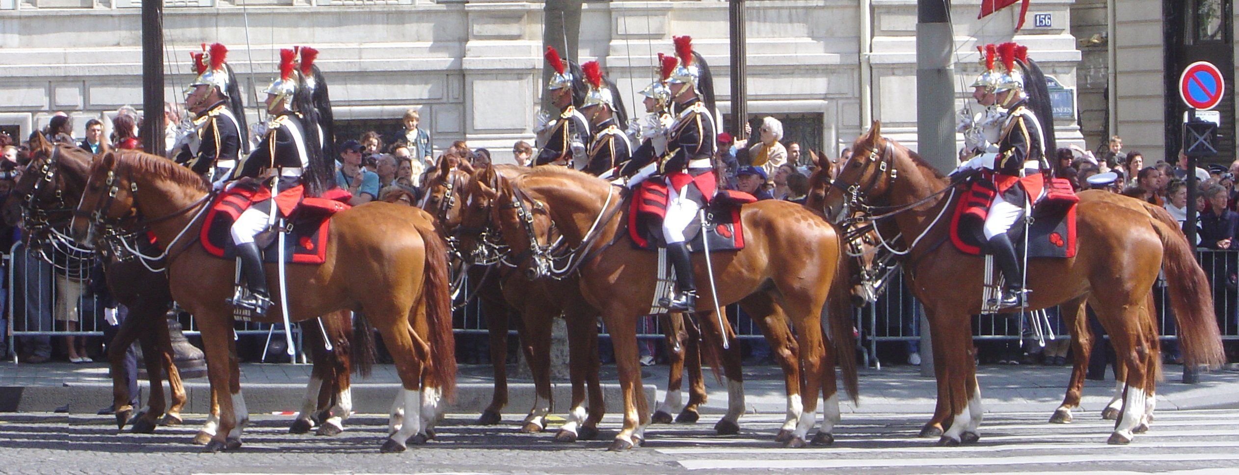 Republican Guard, cavalry (France), May 8, 2005 celebrations